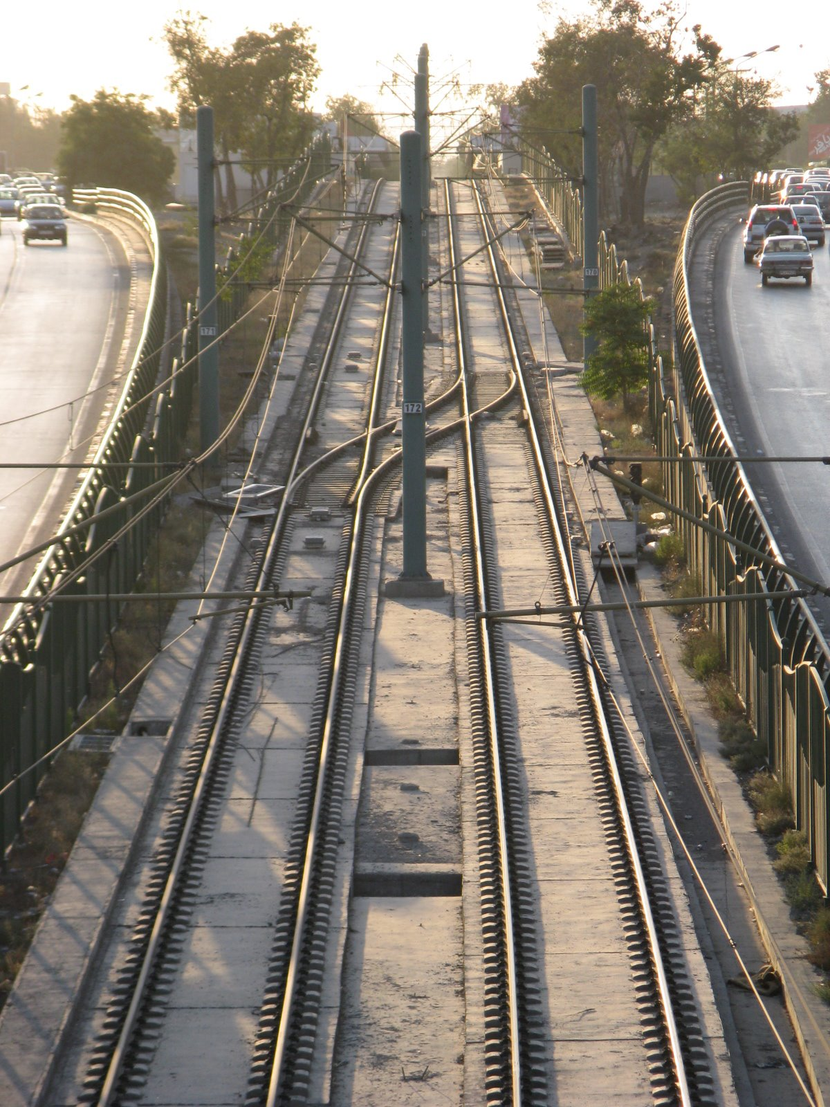 Mashhad Urban Railway (under construction)